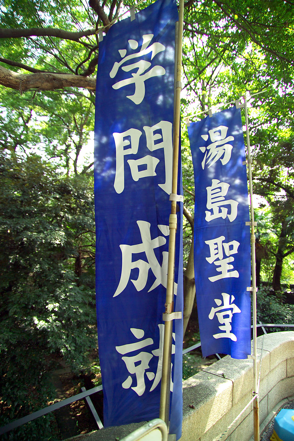 These flags mark the entrance to Yushima Seido, a Confucian temple in Tokyo, Japan. I took the photo and contribute my rights in it to the public domain; people and organizations retain rights to images in it.